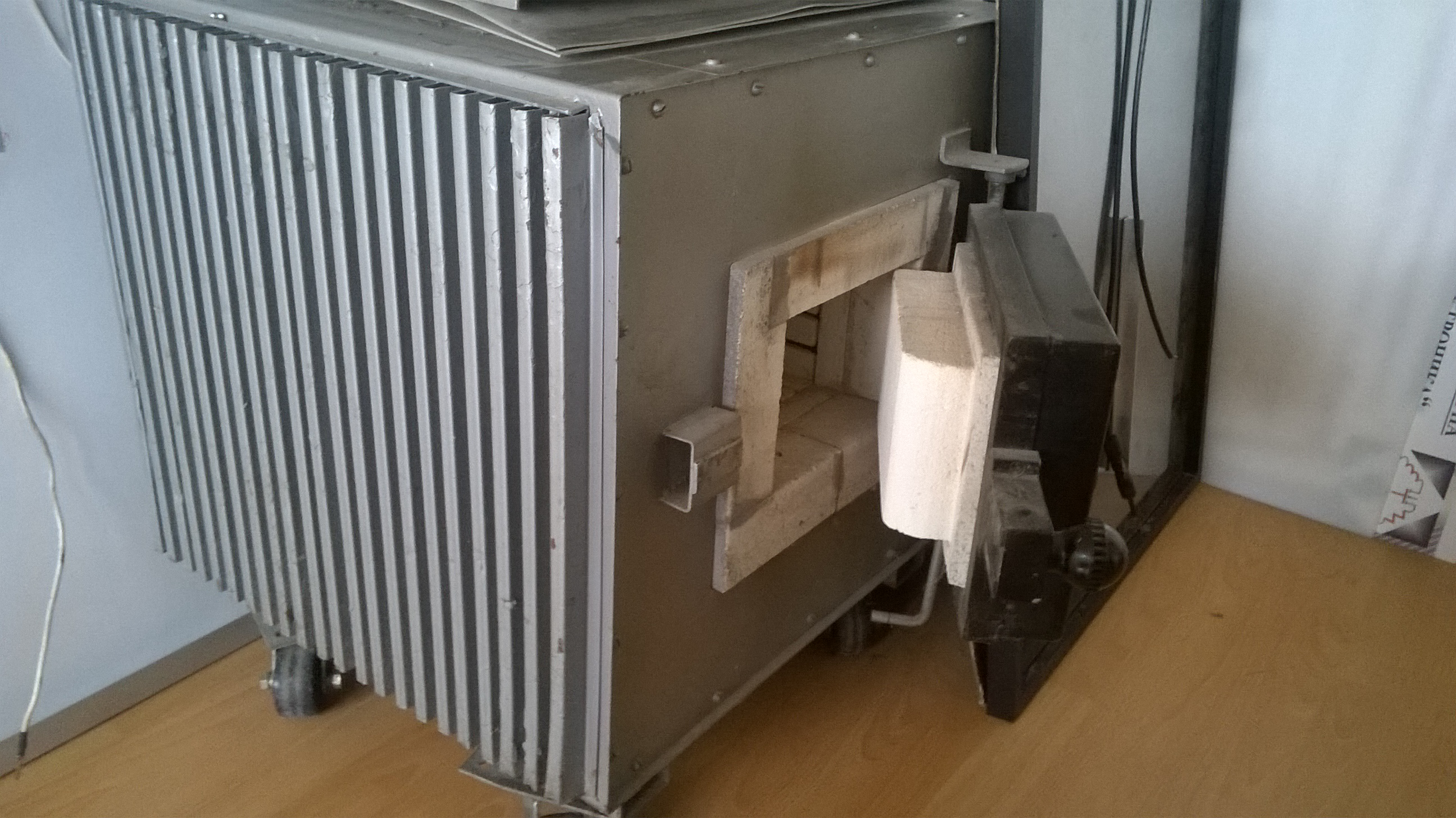 Electric arc furnace in Varna Bulgaria